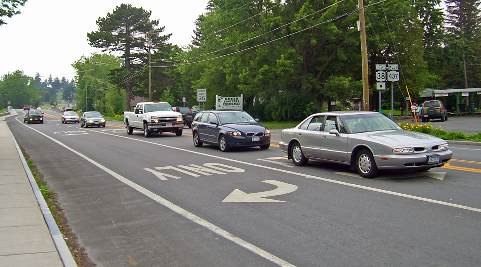 Photographed by Daniel Case 2006-07-29. This is, as far as I know, the only picture on Wikipedia currently showing the entire length of an entire state highway (I am standing at the east end; the traffic circle at the western end is visible just over the second car from left.